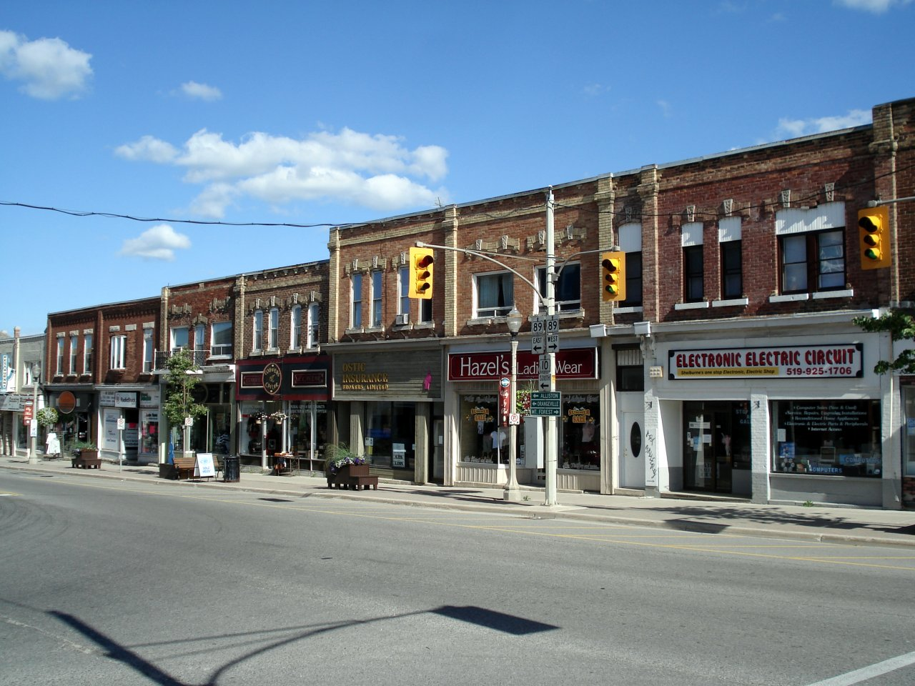 Shelburne Main Street E